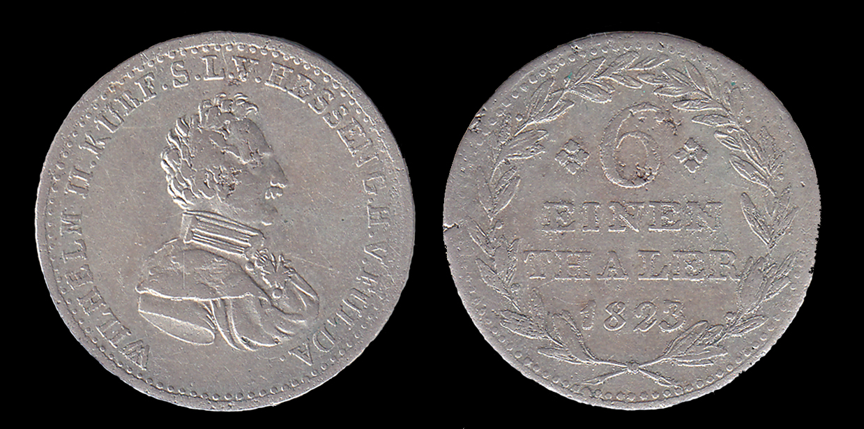 Coin of William II, Elector of Hesse